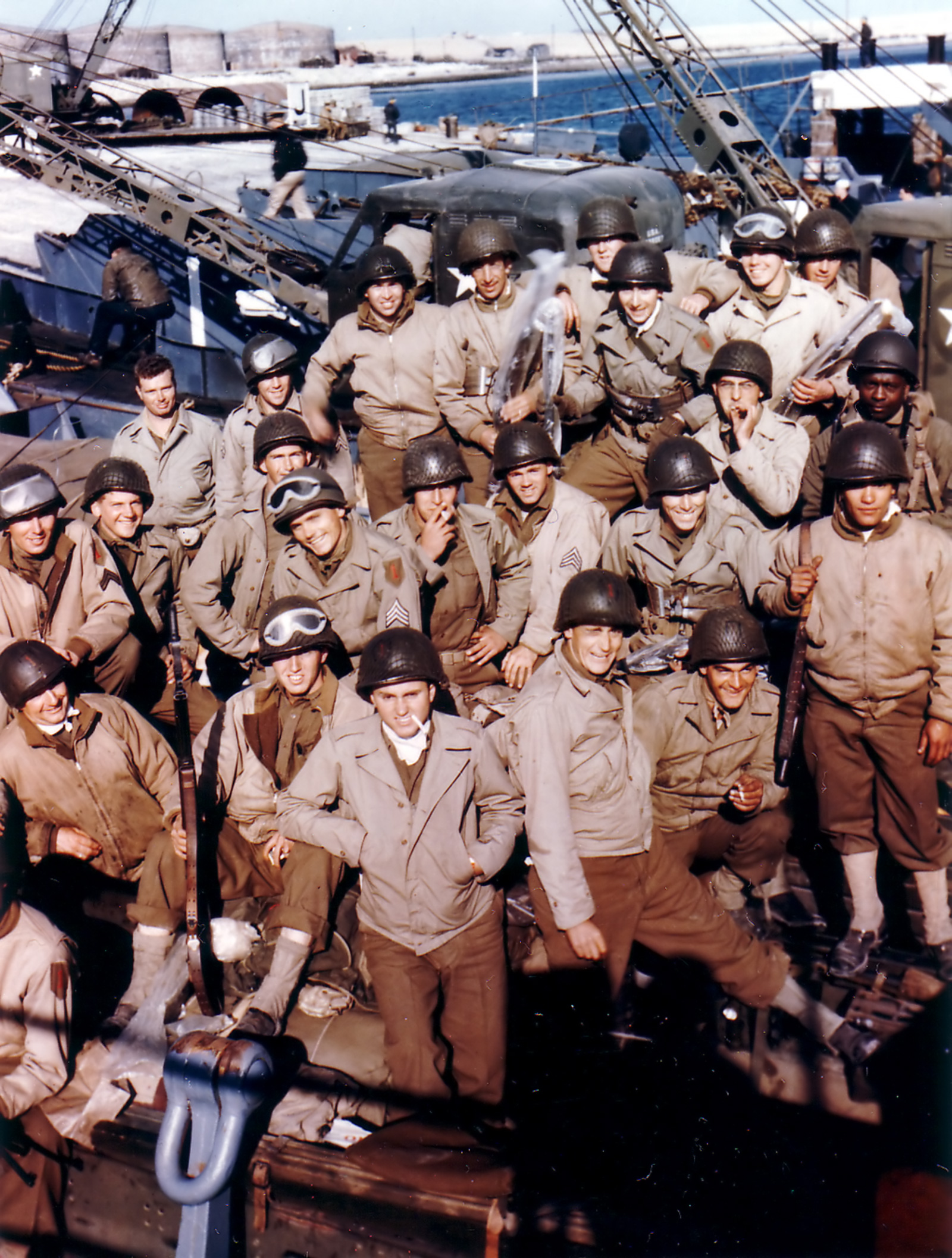 Great Britain: preparing for loading on the ships unloading in Normandy, at the beginning of June 1944 - Operation Overlord: American troops having loaded their equipment in LCT awaiting the signal to leave for the continent